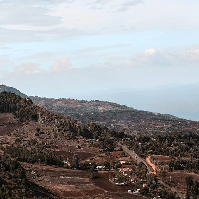 This pictorial shows hills and the beautiful serene environment around Iten in Rift Valley Province,Kenya. This is an image with the theme "Africa on the Move or Transport" from: Kenya